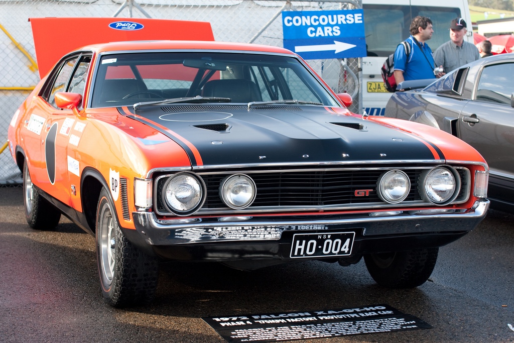 Prototype Bathurst race car. Hand built, seam-welded and blueprinted, producing almost 400HP. This car in particular has under 5000 miles on the clock and one of only 3 manufactured by Ford.